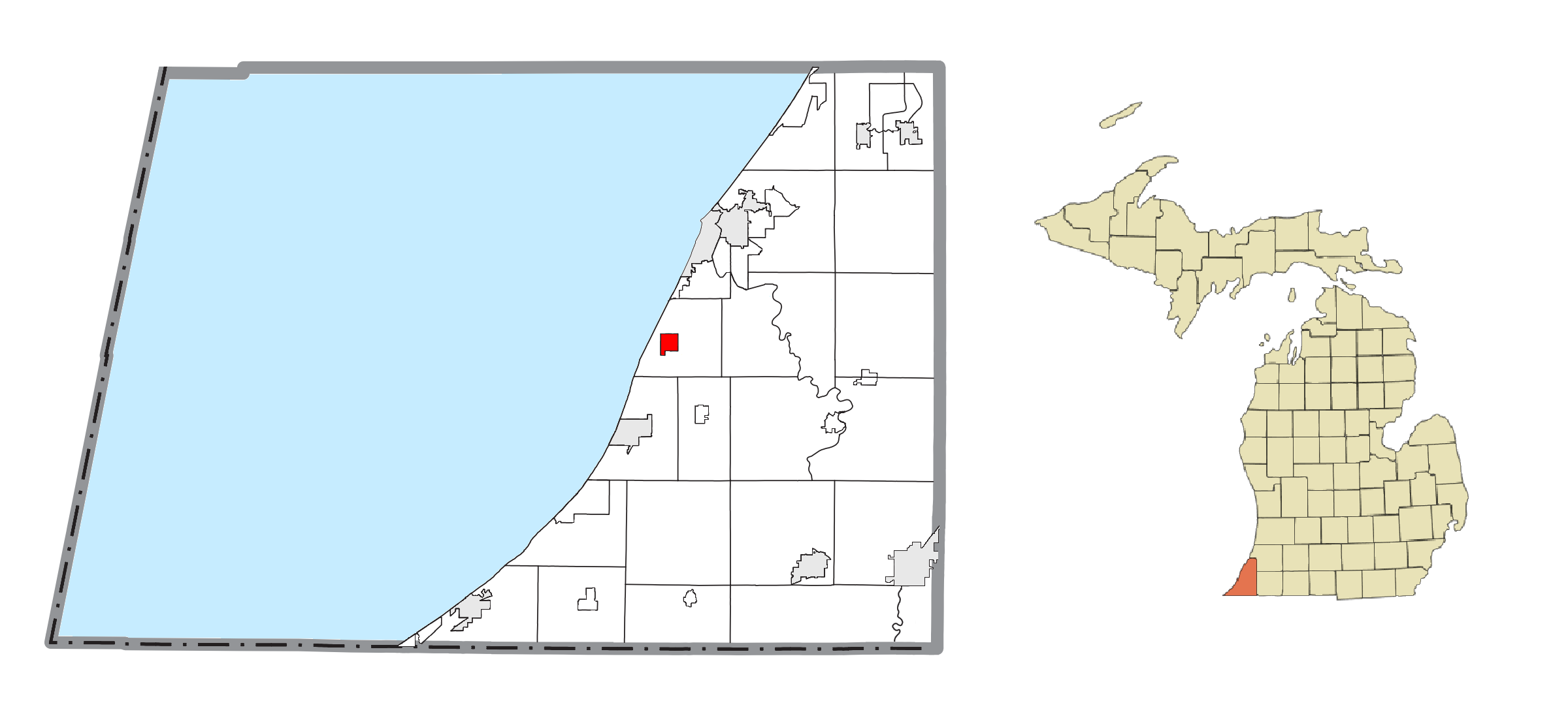 Stevensville, MI